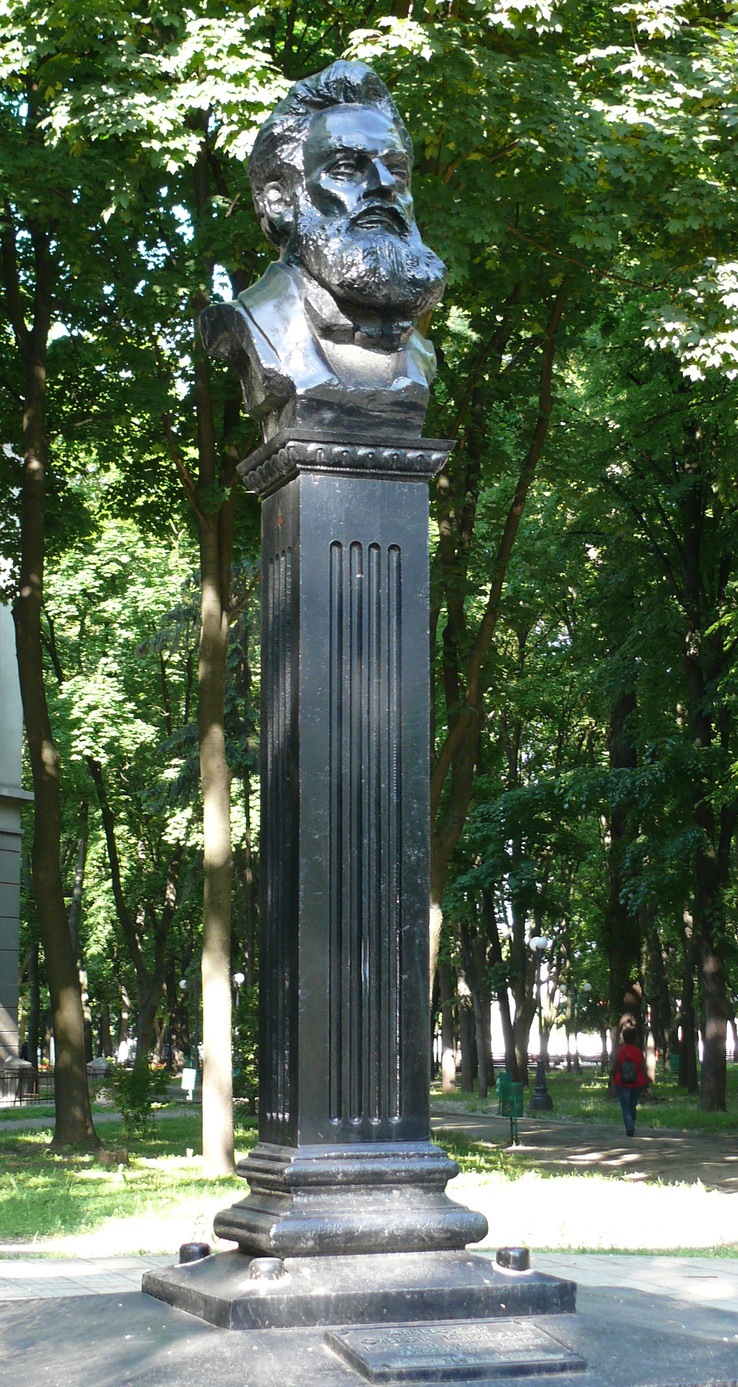 Alchevsky monument in Kharkiv